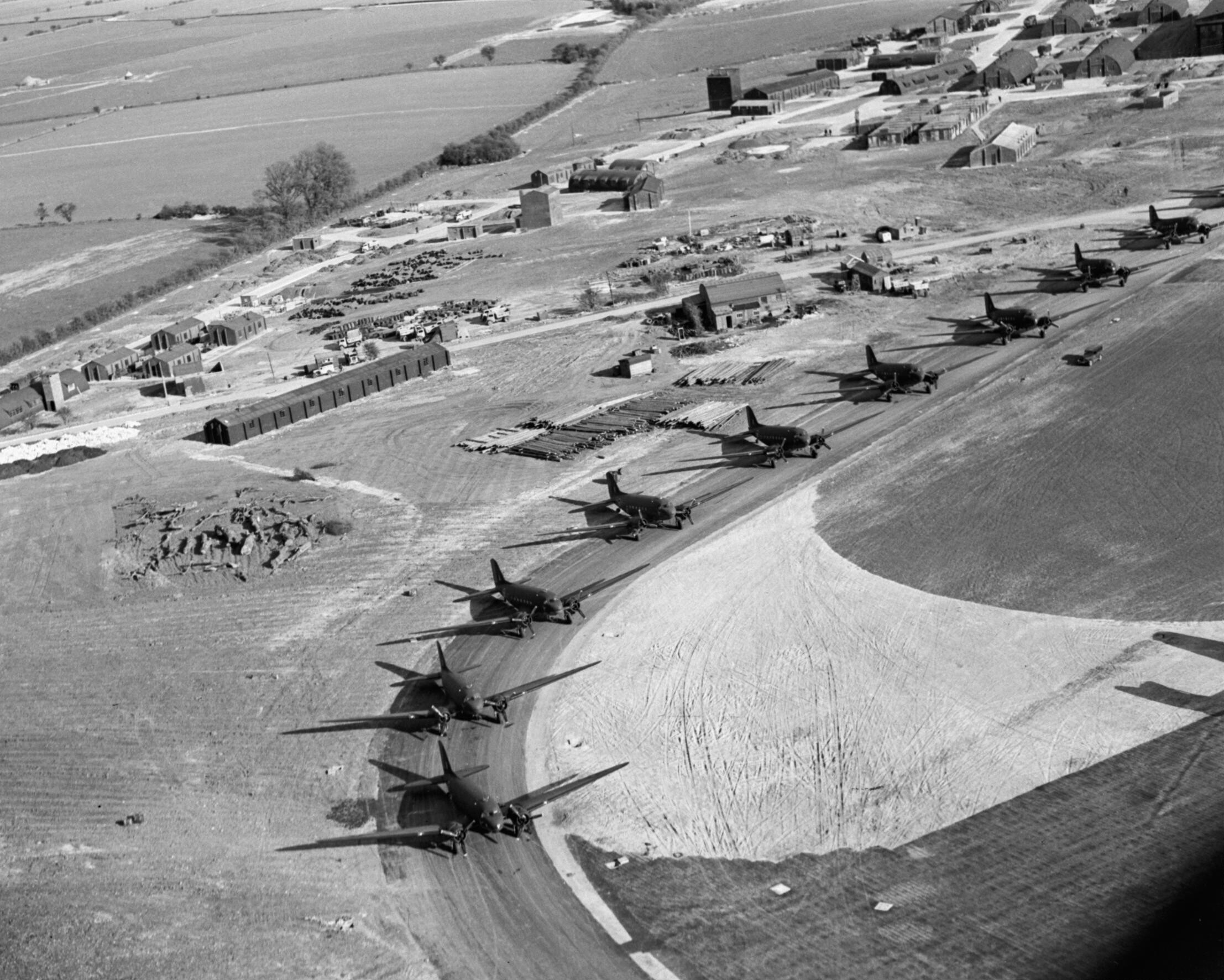 Douglas Dakotas of No. 233 Squadron RAF lined up on the perimeter track at Blakehill Farm, Wiltshire, for an exercise with the 6th Airborne Division, 20 April 1944. Oblique aerial photograph showing Douglas Dakotas of No. 233 Squadron RAF, lined up on the perimeter track at Blakehill Farm, Wiltshire, for an exercise with the 6th Airborne Division.